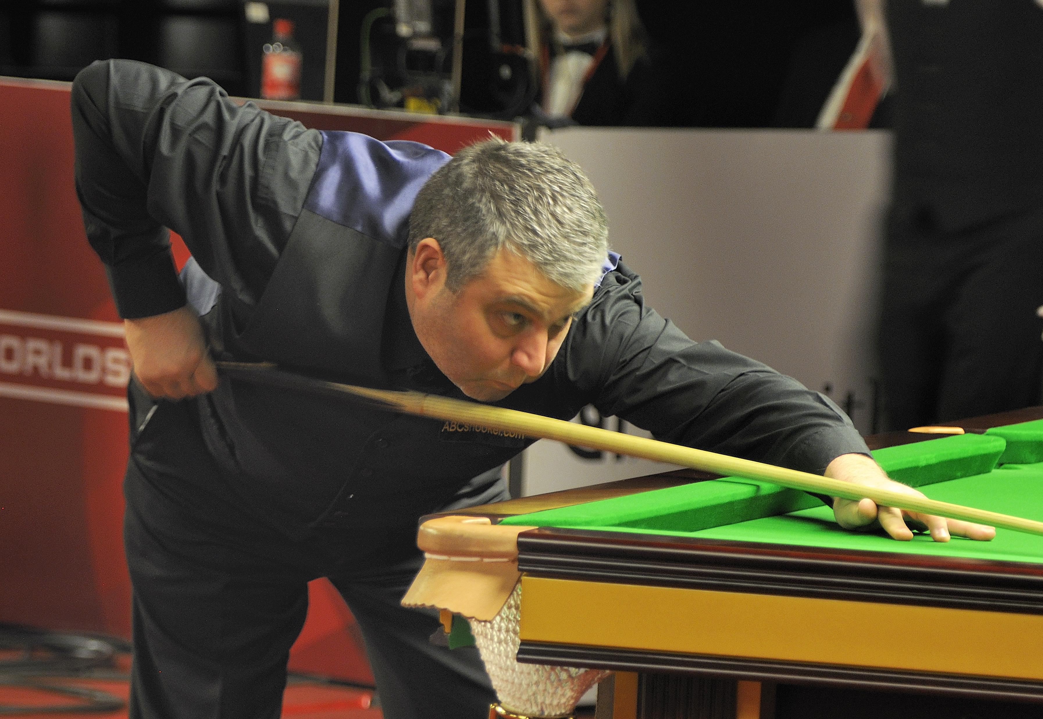 Picture taken in Berlin during the Snooker German Masters in 2014. Rod Lawler.